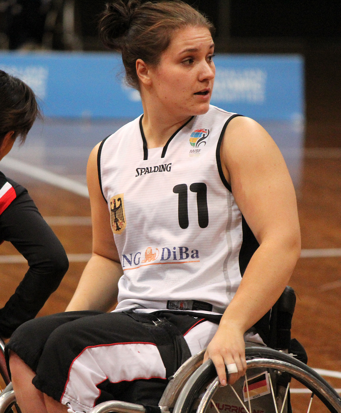 Maya Lindholm at the Germany vs Japan women's wheelchair basketball team at the Sports Centre.